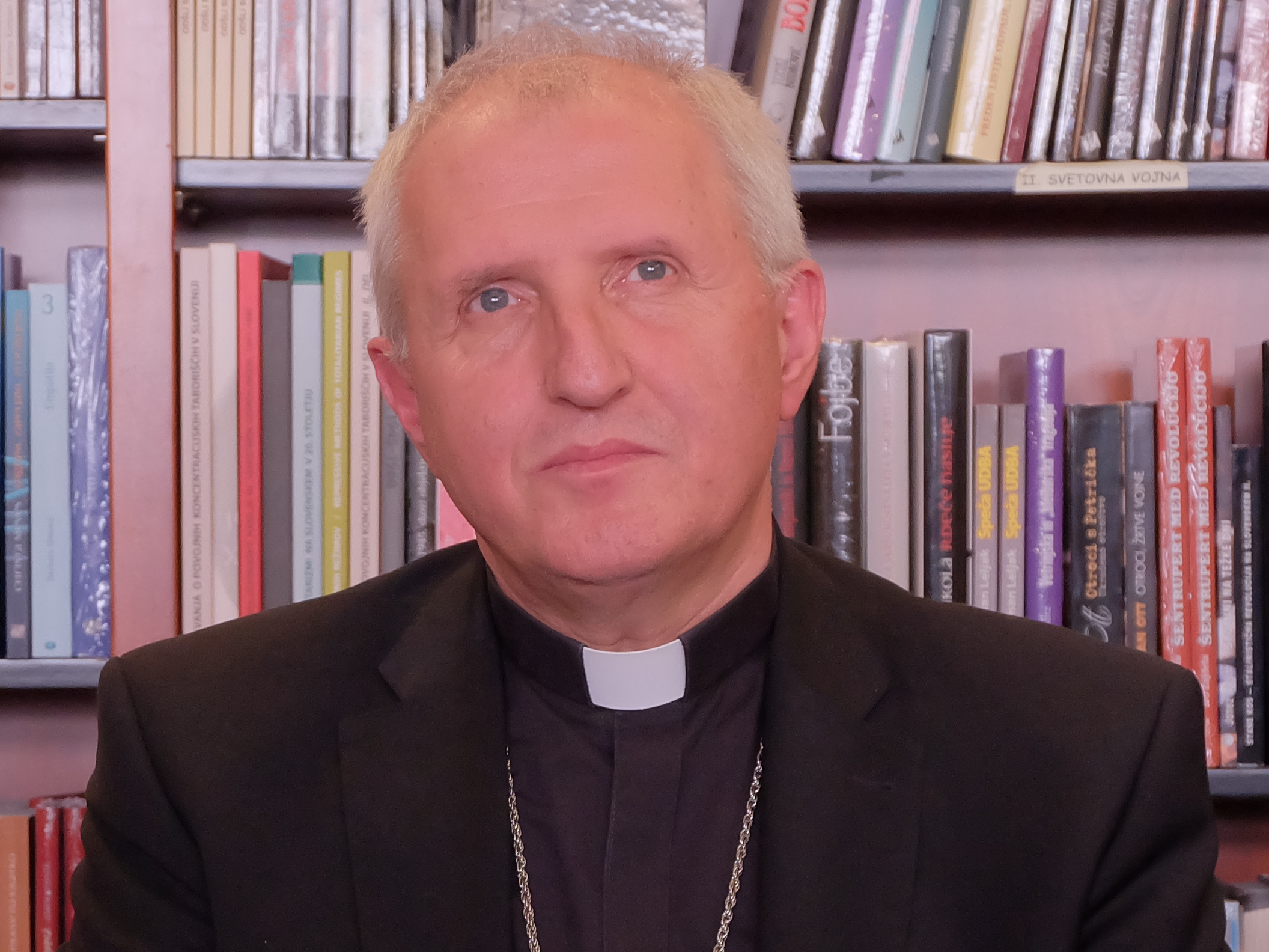 portrait of metropolitan slovene archbishop Stanislav Zore